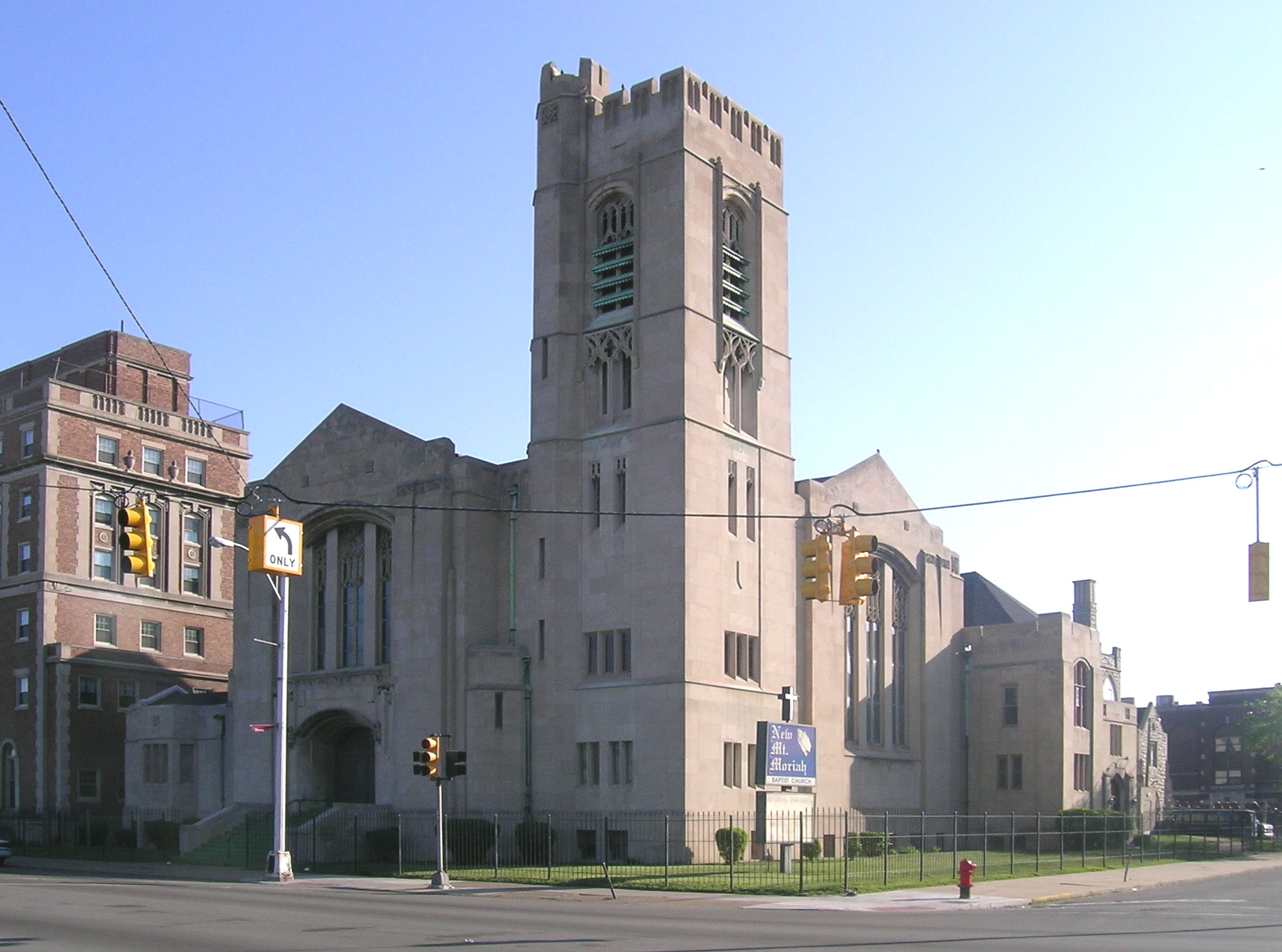 The historic Trinity United Methodist Church in Highland Park, Michigan, as seen here from across Woodward Avenue. The building has been listed on the National Register of Historic Places (NRHP). It continues to be operated as a church, although with a different resident congregation, under the name New Mount Moriah Baptist Church.